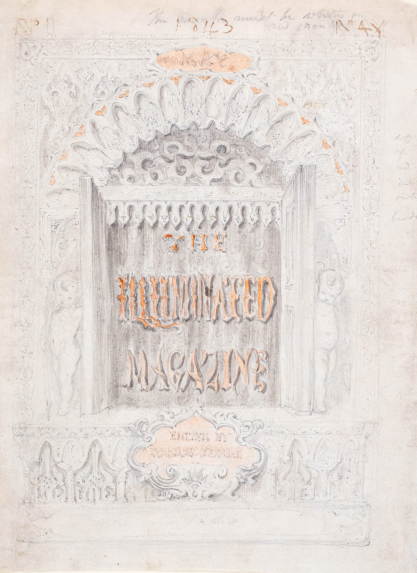 Offered for sale by Abbott and Holder in January 2020 when it was described as "LANDELLS Ebenezer (1808-1860) ‘The Illuminated Magazine / No.1, May 1843 / Edited by Douglas Jerrold’. Pencil and watercolour design for the Cover or Frontispiece. Only five 64pp Vol. were published (1843-1845) Provenance: Album of Landell’s studies. 10.5x7.75 inches."